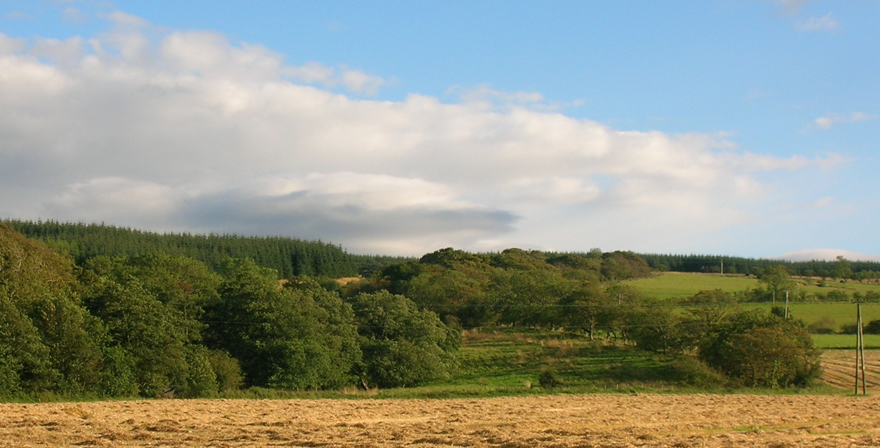 Kerse Castle policies, Ayrshire, Scotland